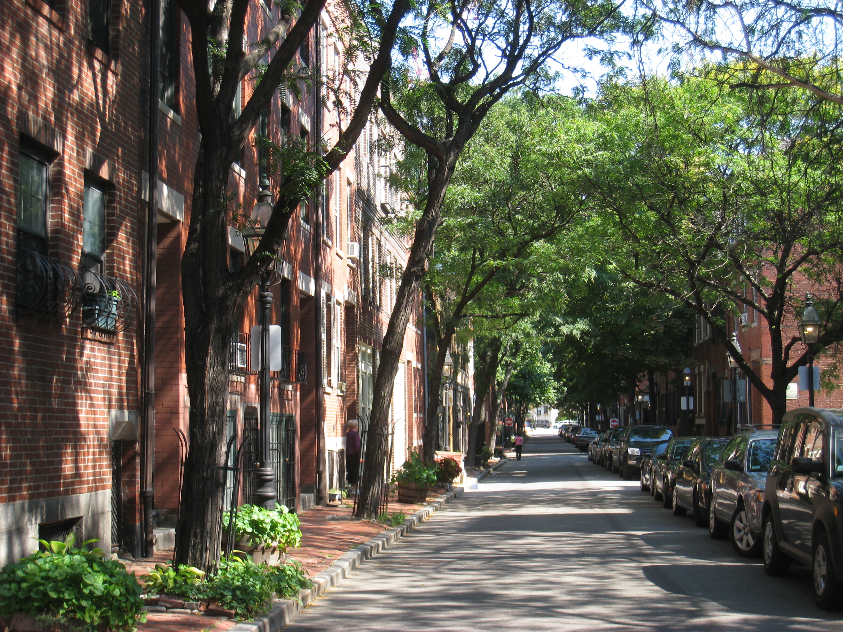 General view of Bay Village, a neighborhood in Boston, Massachusetts, USA.